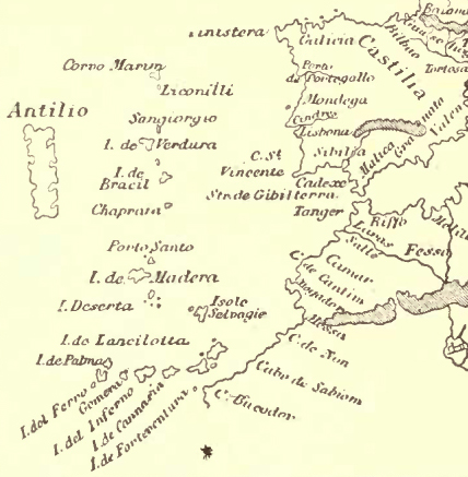 Segment of 1476 sea chart showing the island of 'Antilio'